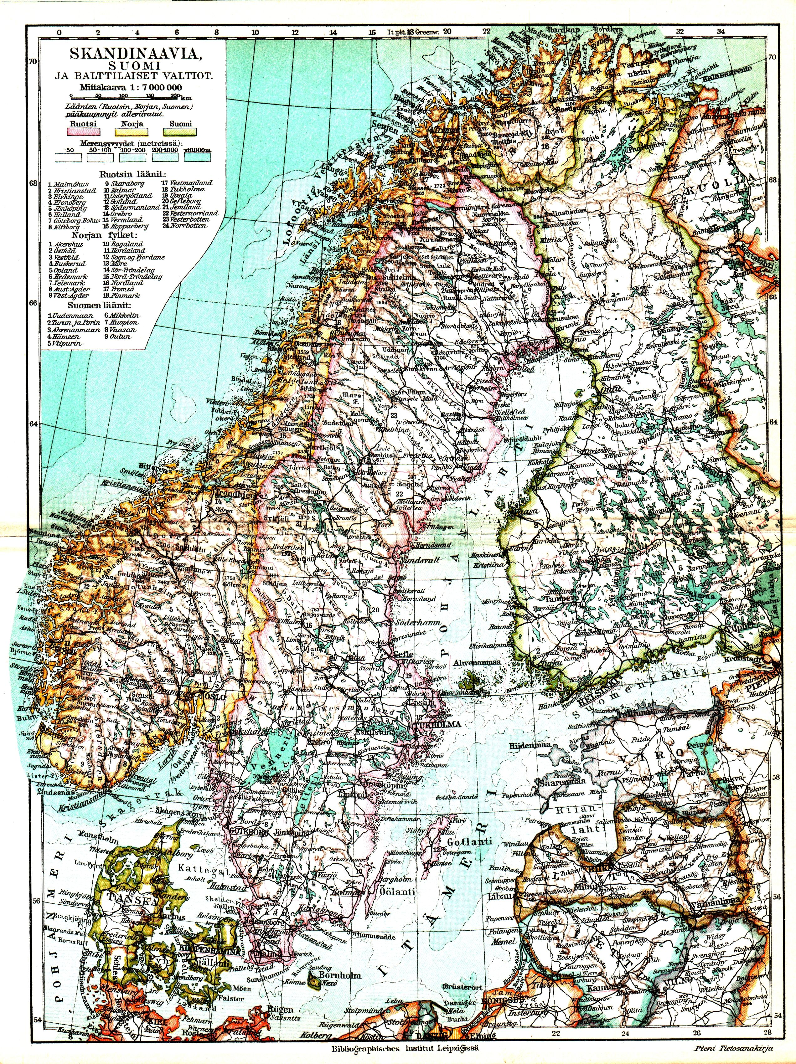 Map of Scandinavia with Finnish text